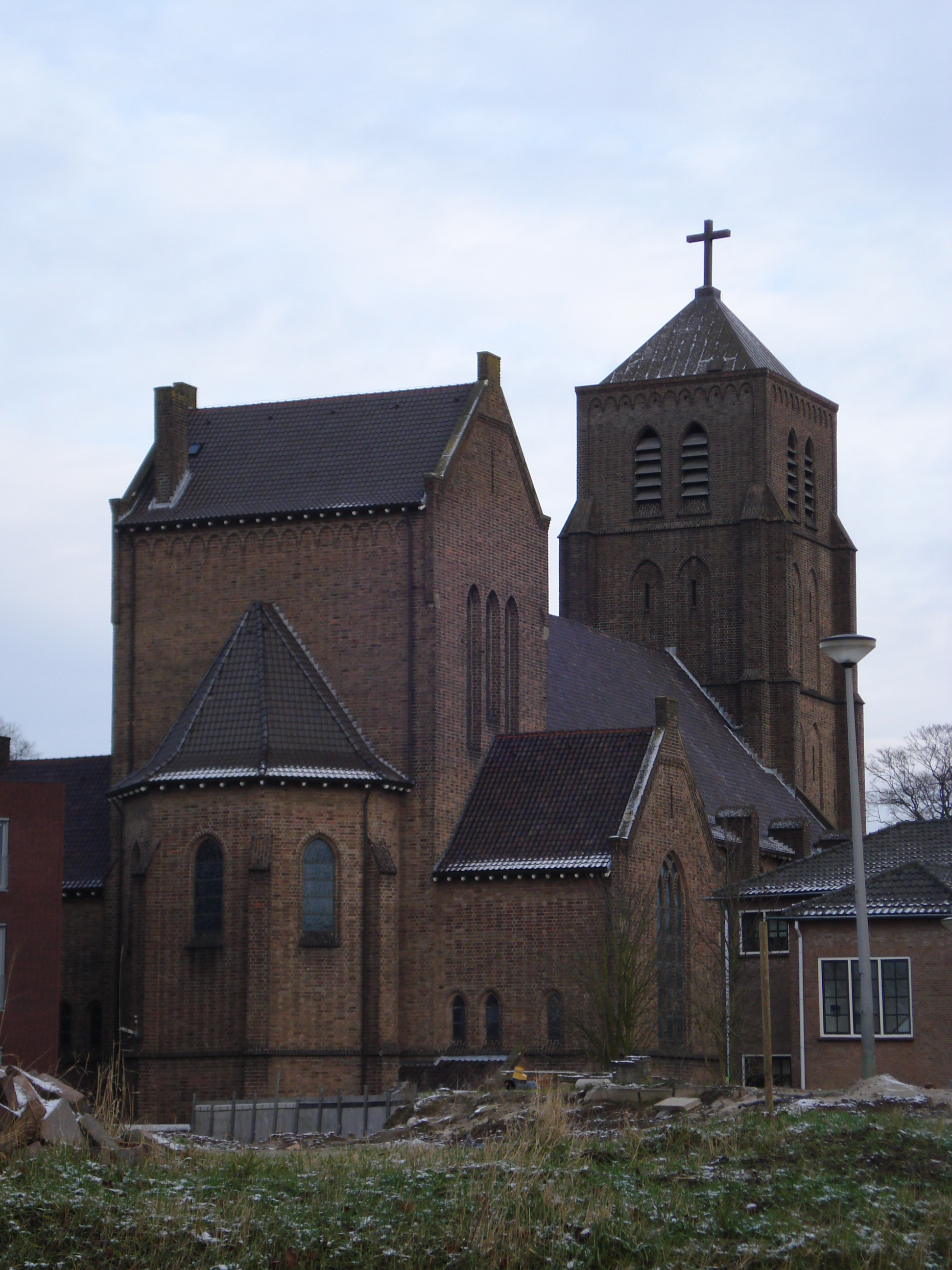 Dominicus church in Tiel, Netherlands.